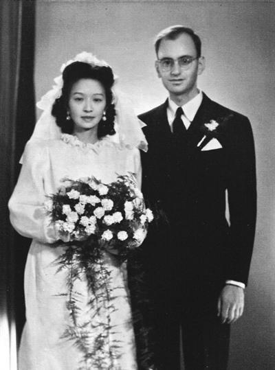 Chang Chung-Ho met Hans Fränkel in November 1948.